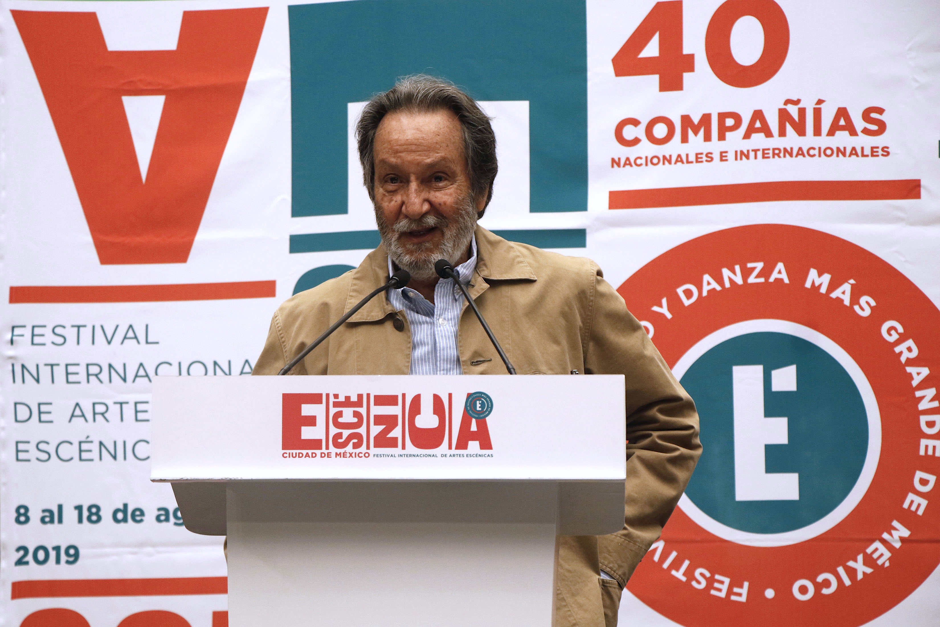 Mexico City Government names Jorge Fons a Cultural Ambassador. Tuesday, 23 July, 2019. Picture by Milton Martinez / Secretaria de Cultura de la Ciudad de Mexico.